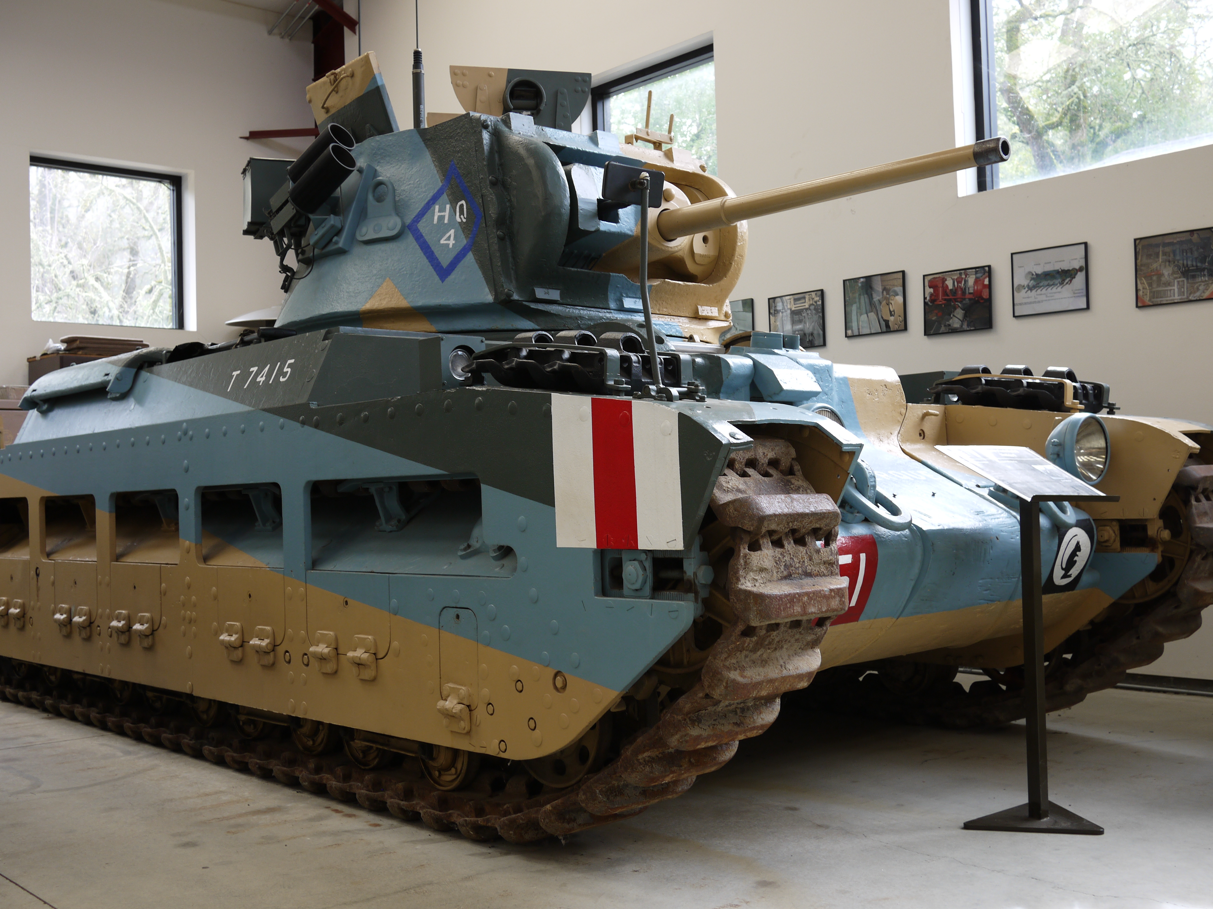 British Matilda MK2 Series 4 armed with a 40mm (2 pounder) cannon.